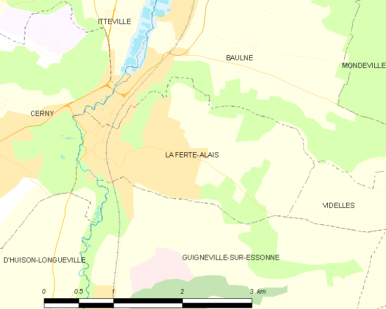 Map of French municipality La Ferté-Alais